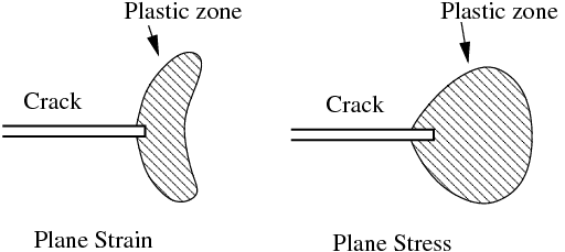 Plastic zone around a crack tip.